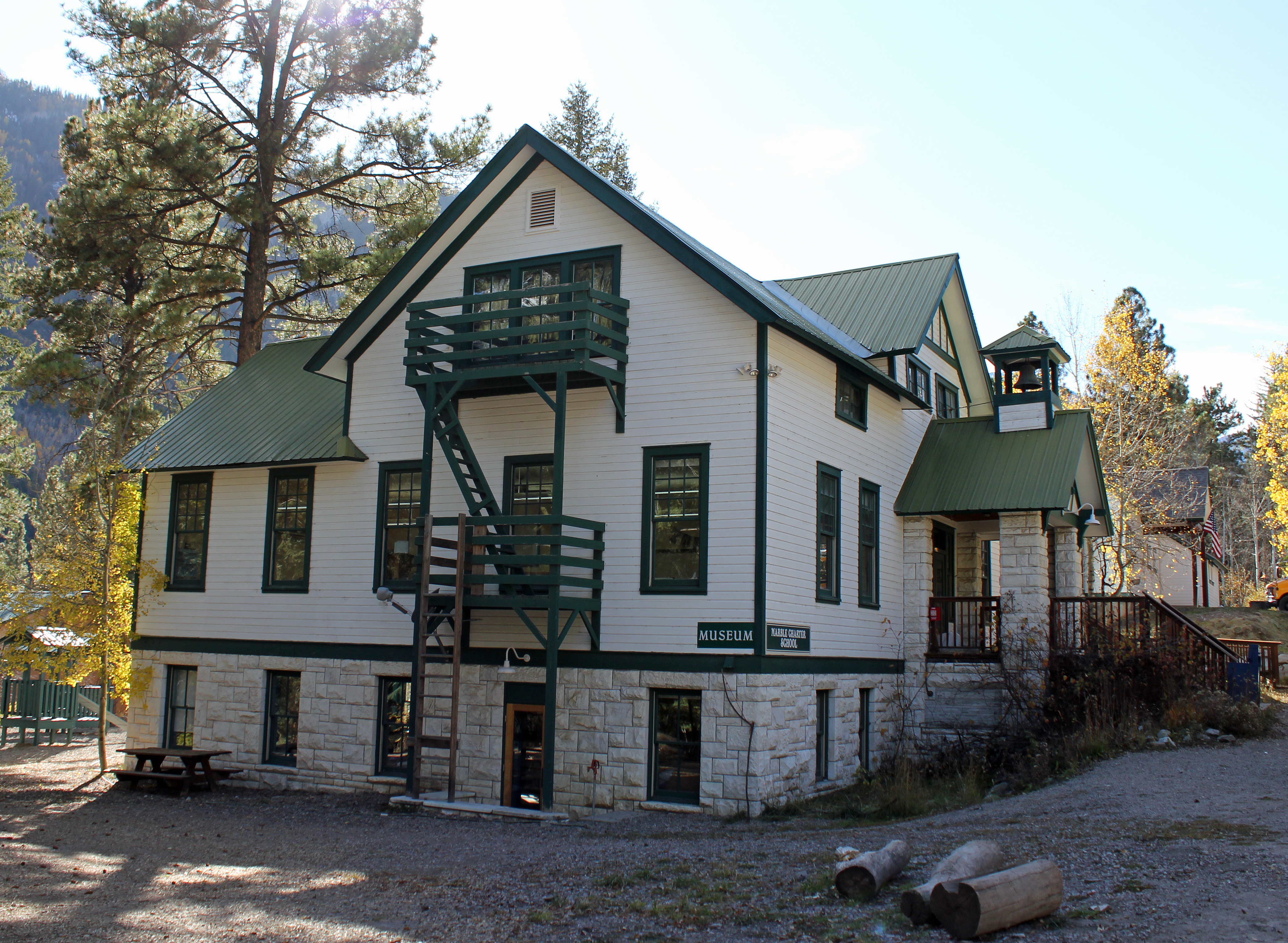 Marble High School in Marble, Colorado. The property is listed on the National Register of Historic Places.